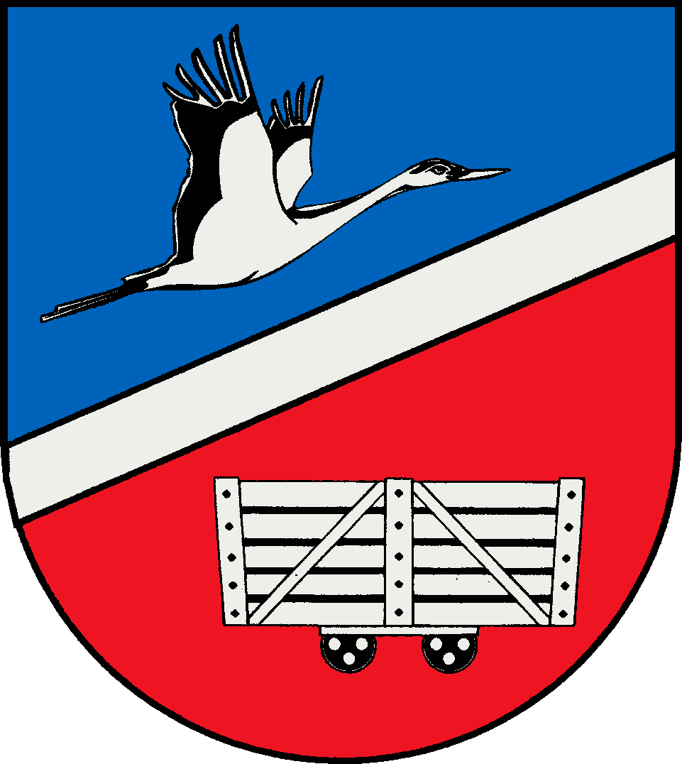 Coat of arms of the municipality Nienwohld in Schleswig-Holstein, Germany.